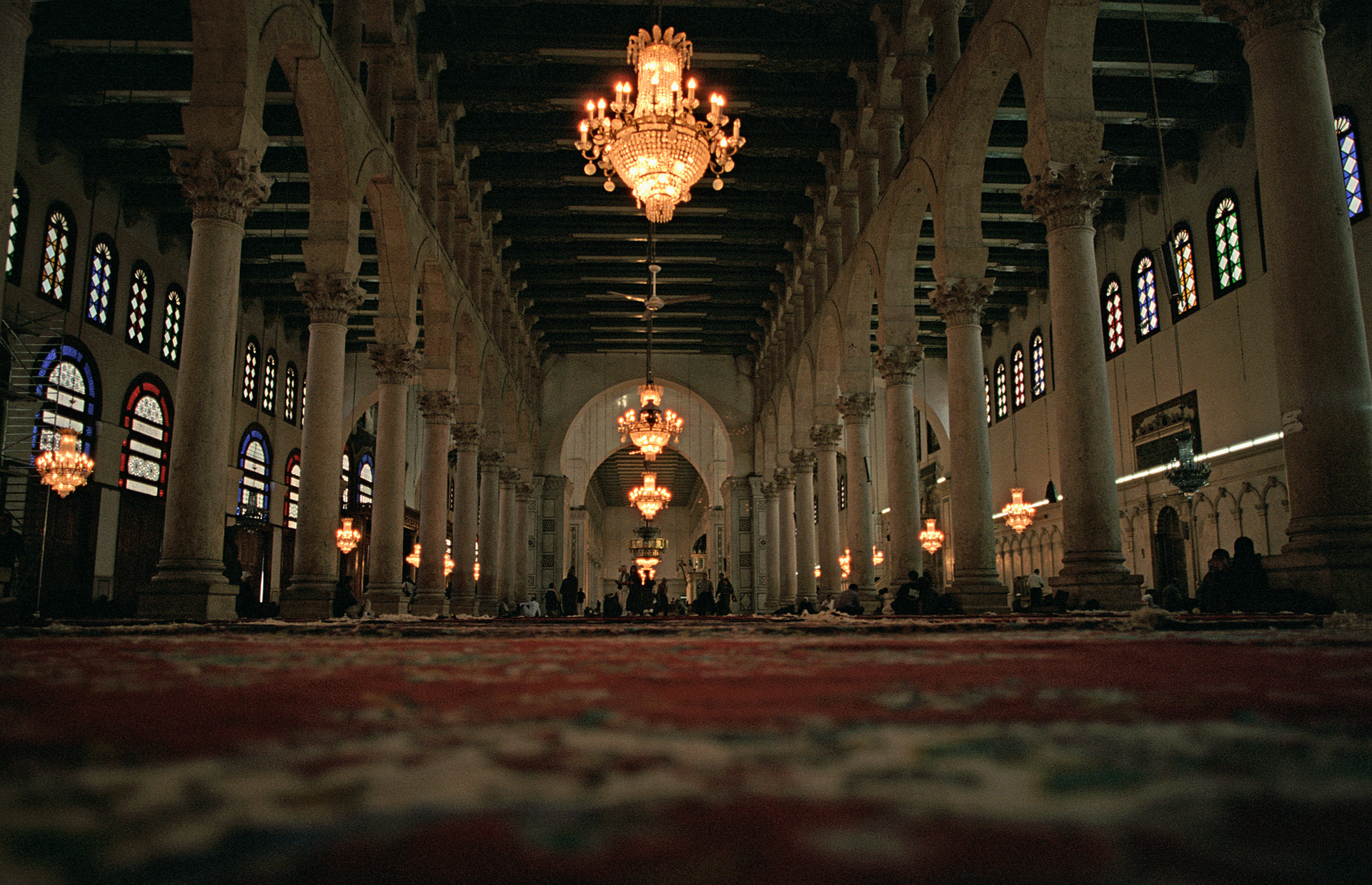 The Umayyad Mosque - interior, Damascus